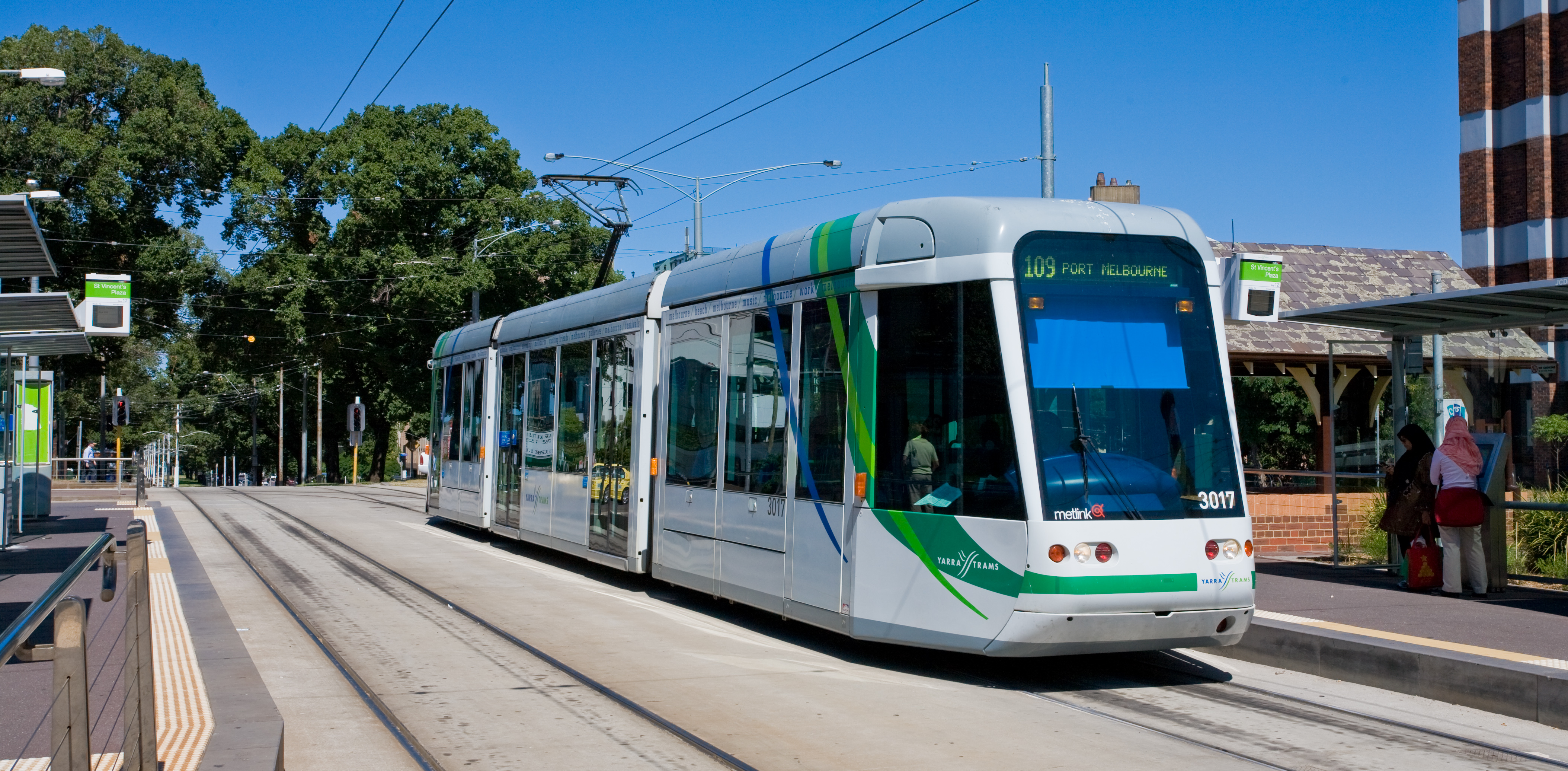 C class tram number 3017 at the St Vincent's Plaza stop in East Melbourne. Taken by myself with a Canon 5D and 17-40mm f/4L IS lens.